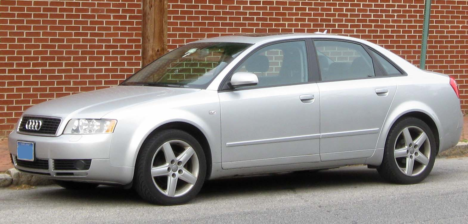 Audi A4 1.8T photographed in Annapolis, Maryland, USA.